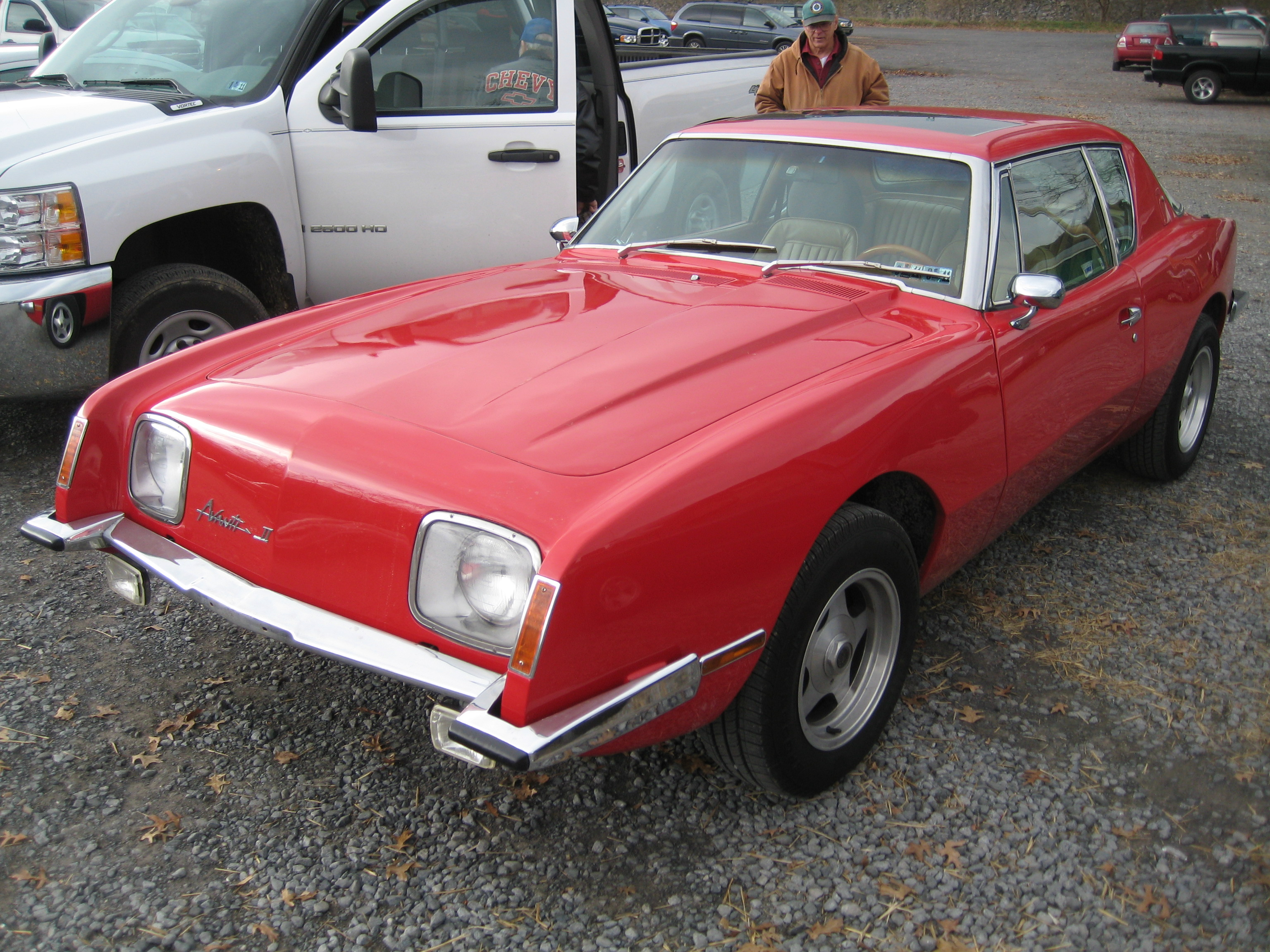 The Manhattan Studebaker Club recently had their annual fall meet in Reedsville, Pennsylvania. I went once decades ago, and again this year. Not an organized show, but mostly just a meet and flea market. Three Avanti cars in attendance, a round light model, a second year square light and an early Avanti II.